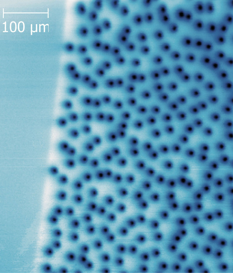 Images of vortices in 200 nm thick YBCO film taken by Scanning SQUID Microscopy after field cooling at 6.93 μT to 4 K.